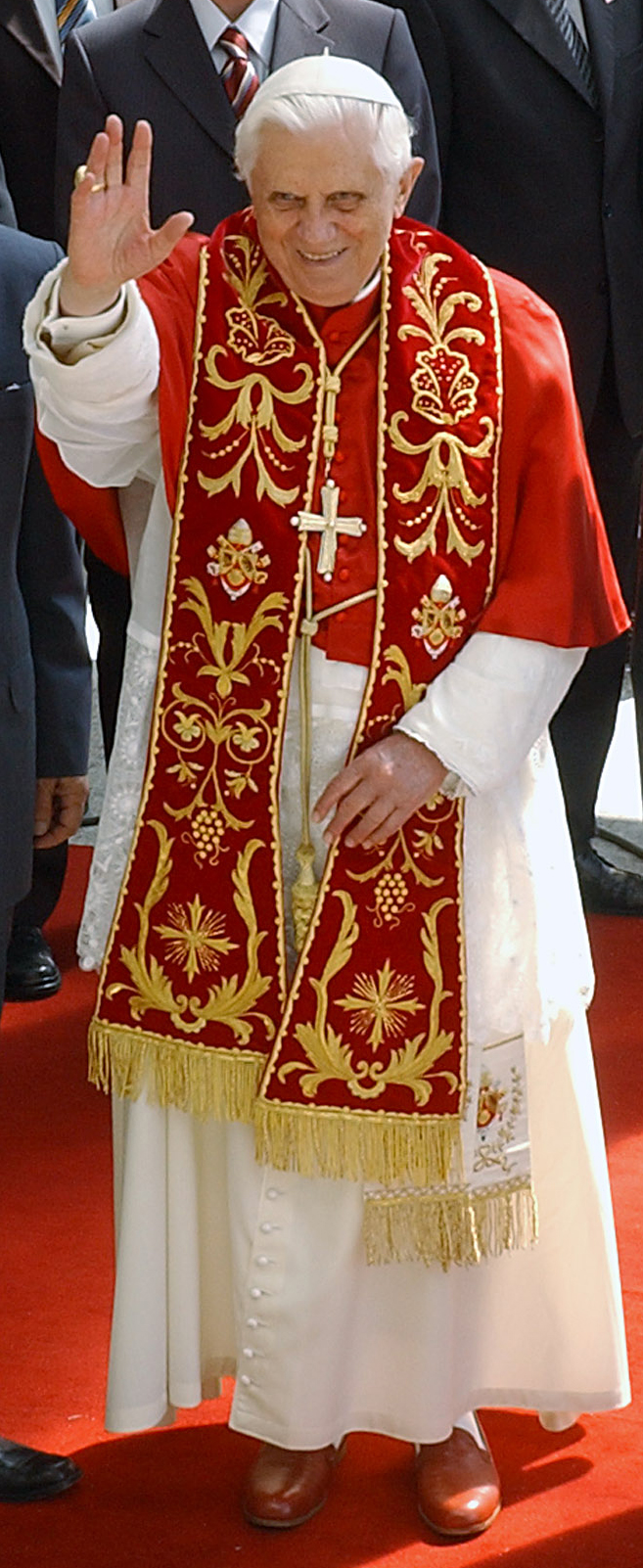 Pope Benedict XVI during visit to São Paulo, Brazil.